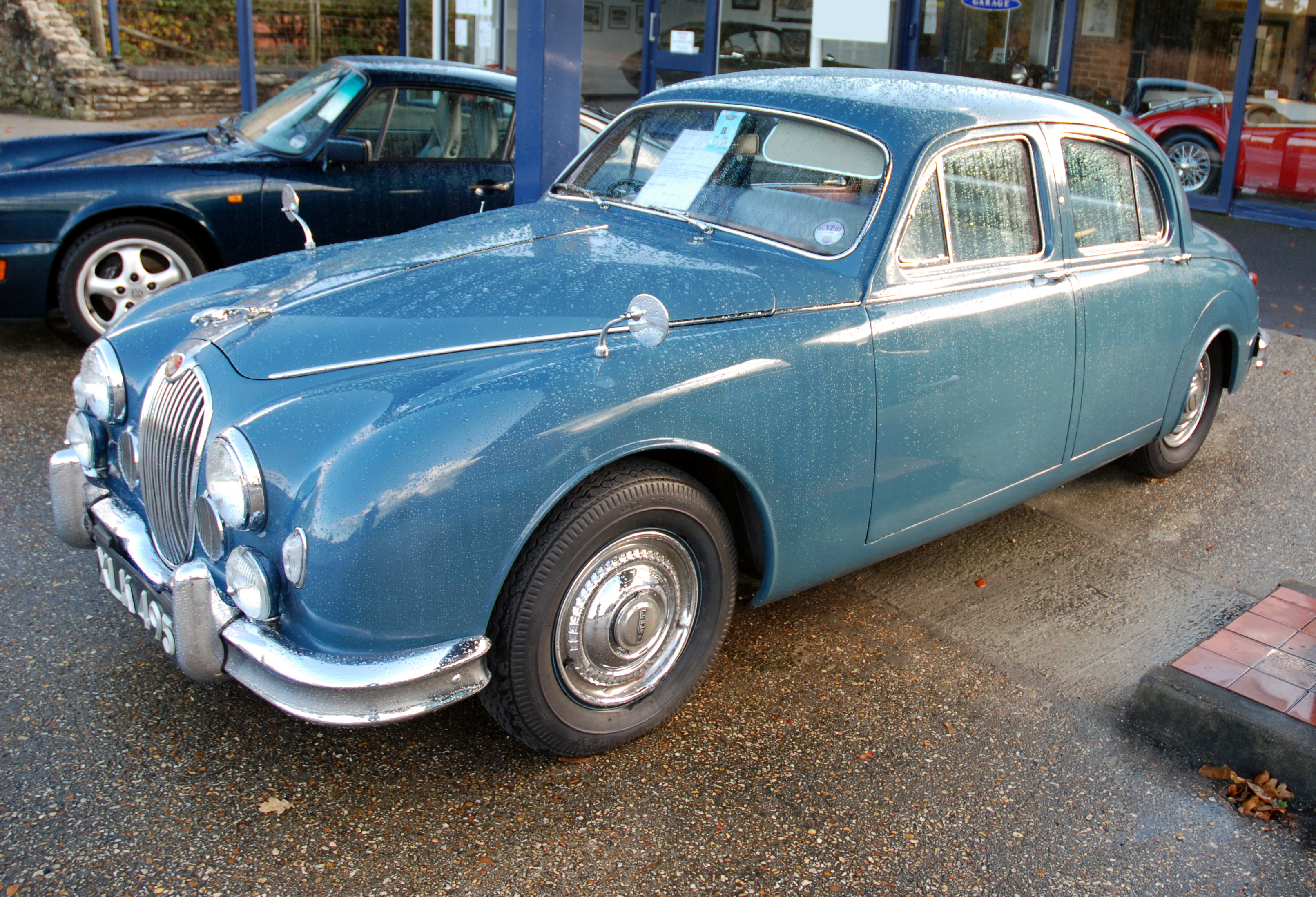 1959 Jaguar (Mark I) 3.4-litre at the Beaulieu Garage, Nov 2007. This example was first registered on 13 July 1959, only three months before the succeeding Mark II premiered.